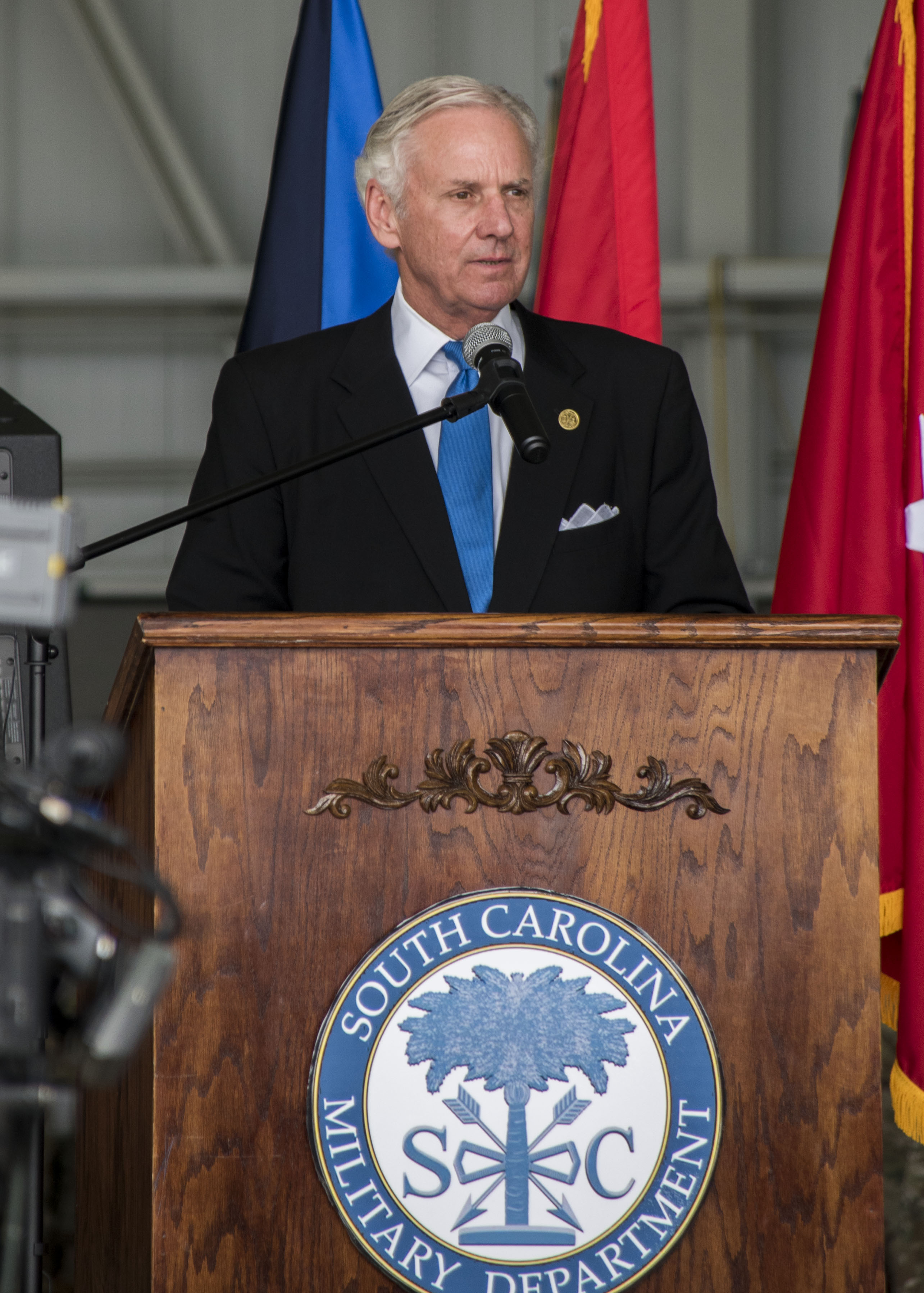 Gov. Henry McMaster, governor of South Carolina, addresses attendees during the adjutant general change of command ceremony at McEntire Joint National Guard Base in Eastover, South Carolina, Feb. 16, 2019. The change of command ceremony recognizes U.S. Army Maj. Gen. Robert E. Livingston, Jr. as the outgoing adjutant general and welcome U.S. Army Maj. Gen. Van McCarty as the incoming adjutant general. (U.S. Army National Guard photo by Staff Sgt. Jerry Boffen, 108th Public Affairs Detachment)